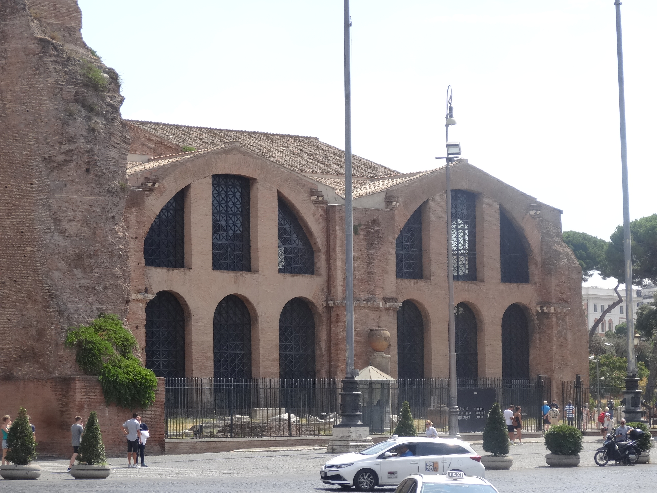 Baths of Diocletian (Rome)